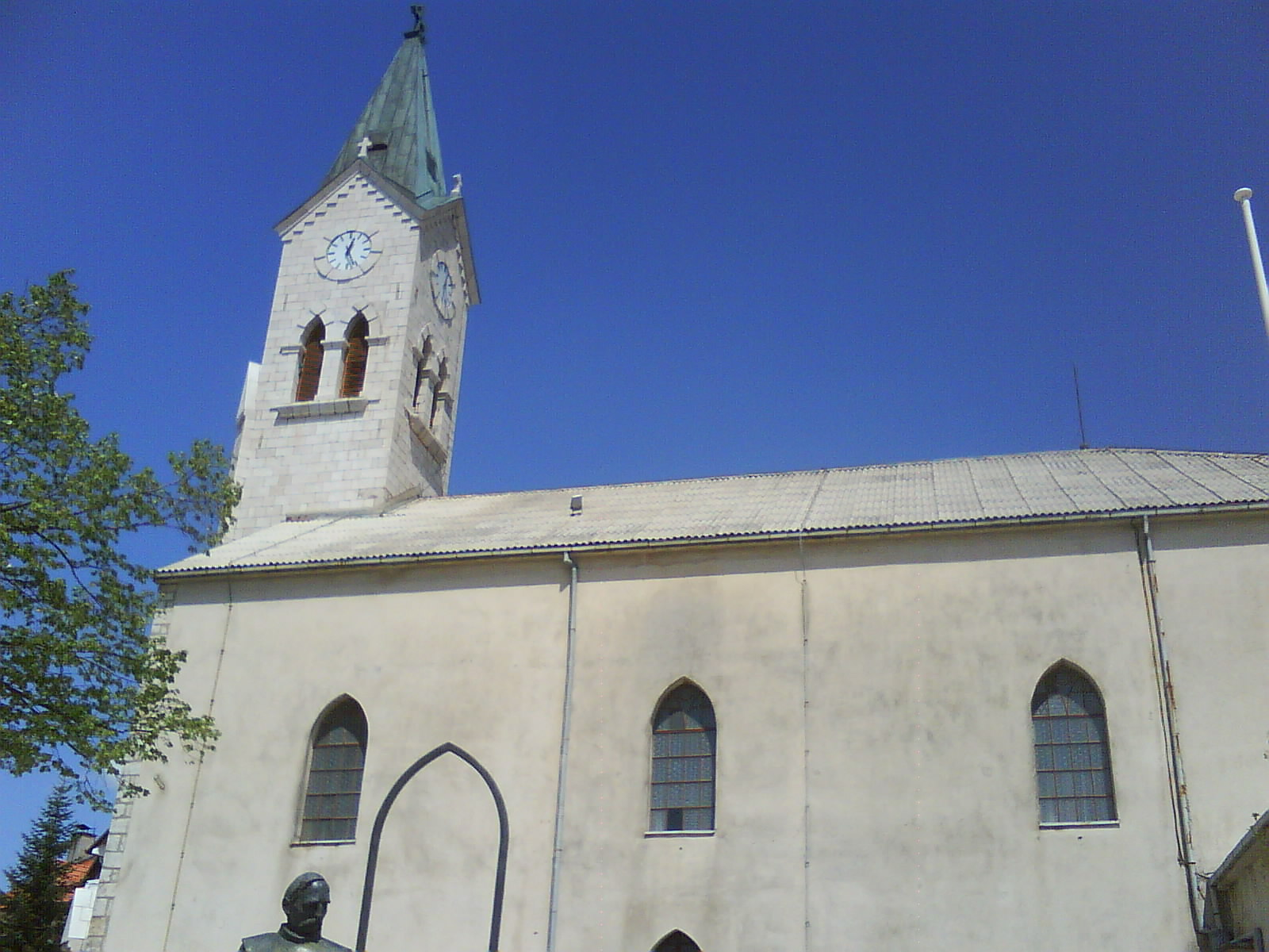 Roman Catholic Virgin Mary church in Posušje